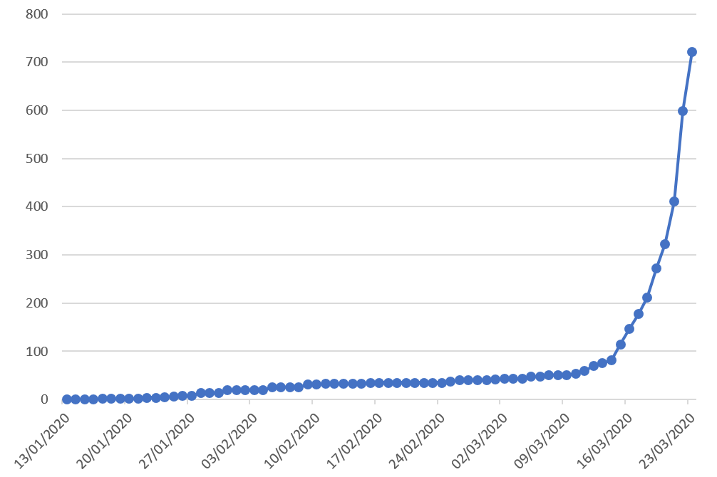 Growth in total confirmed cases (As of 23 March 2020)